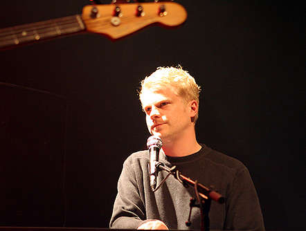 Vredeber Albrecht of Blumfeld performing in 2007